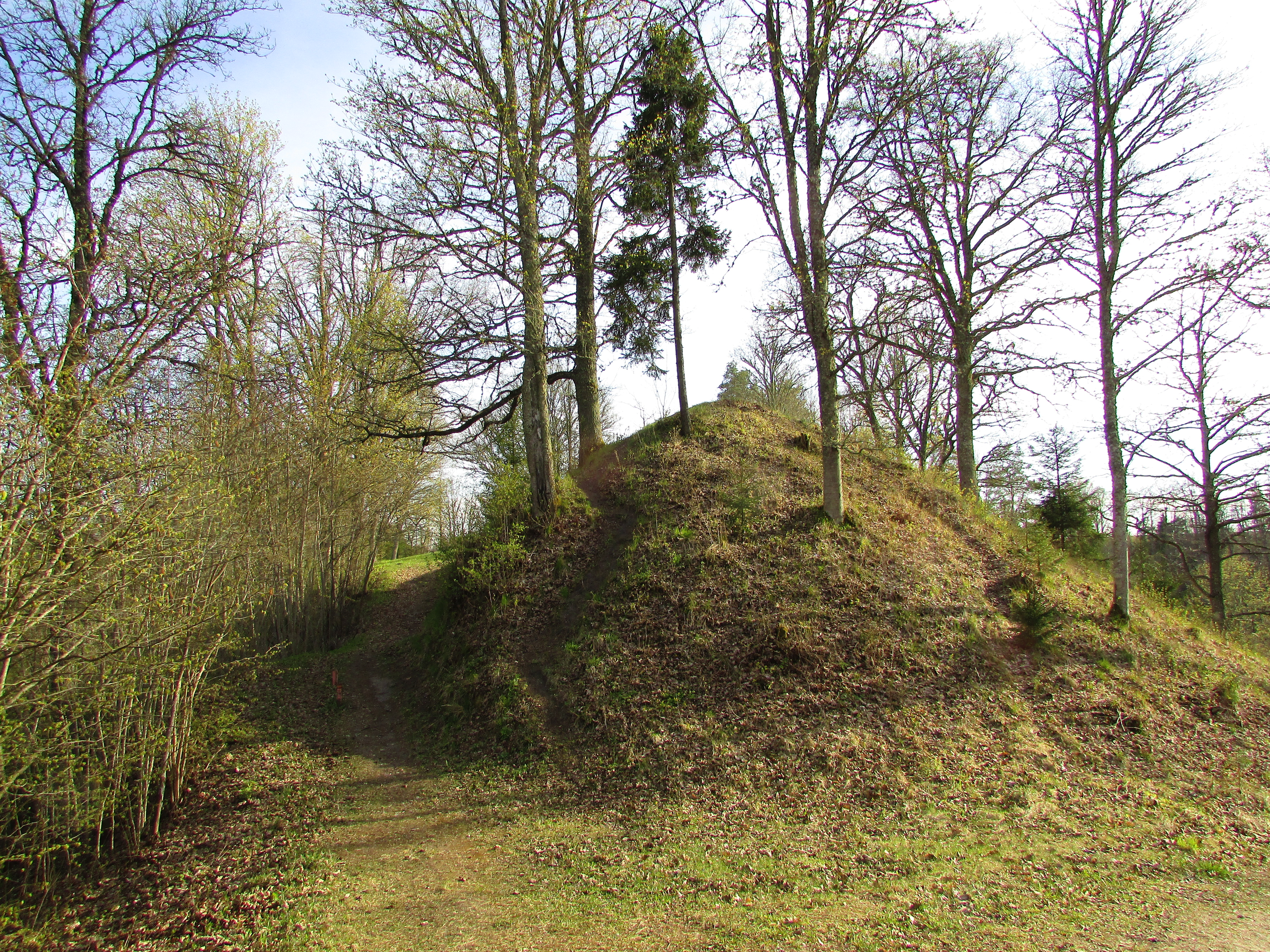 Buses Matkules hillfort, Kandava Municipality, Latvia